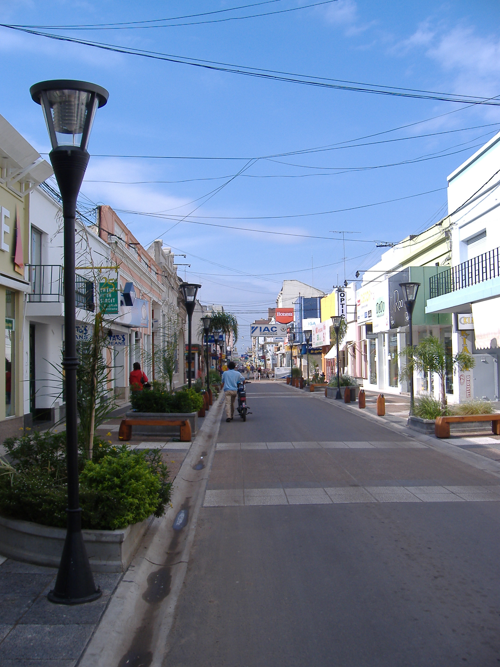 25 de Mayo St., the main commercial street in Gualeguaychú, Entre Ríos, Argentina.